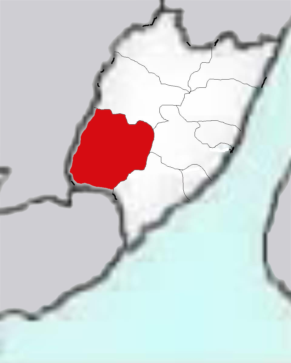 Maps of Fujian Province, China